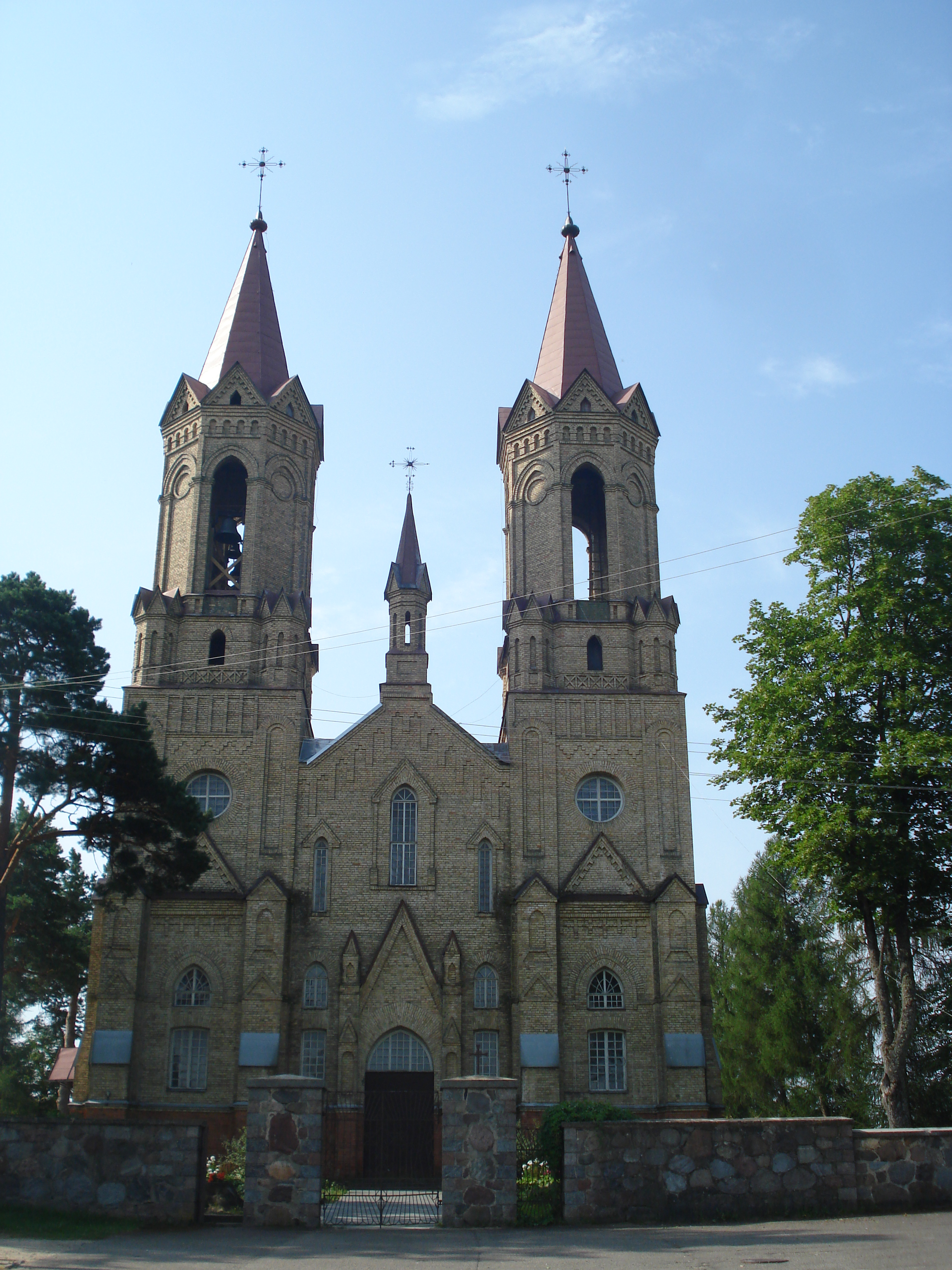 Church of John the Baptist in Lavoriškės, Lithuania. 1899–1906. Main facadeLietuvių: Lavoriškių Šv. Jono Krikštytojo bažnyčia. Fasadas